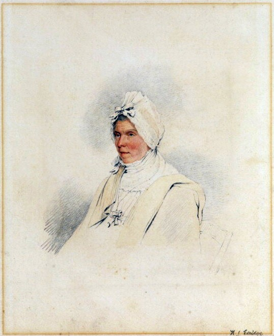 Portrait of Ann Constable - Graphite, watercolour on card - Height: 21.1 cm; Width: 18.6 cm